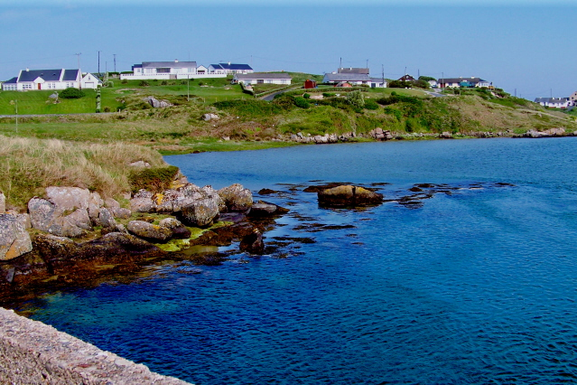 Cruit Island - Homes at south end near bridge